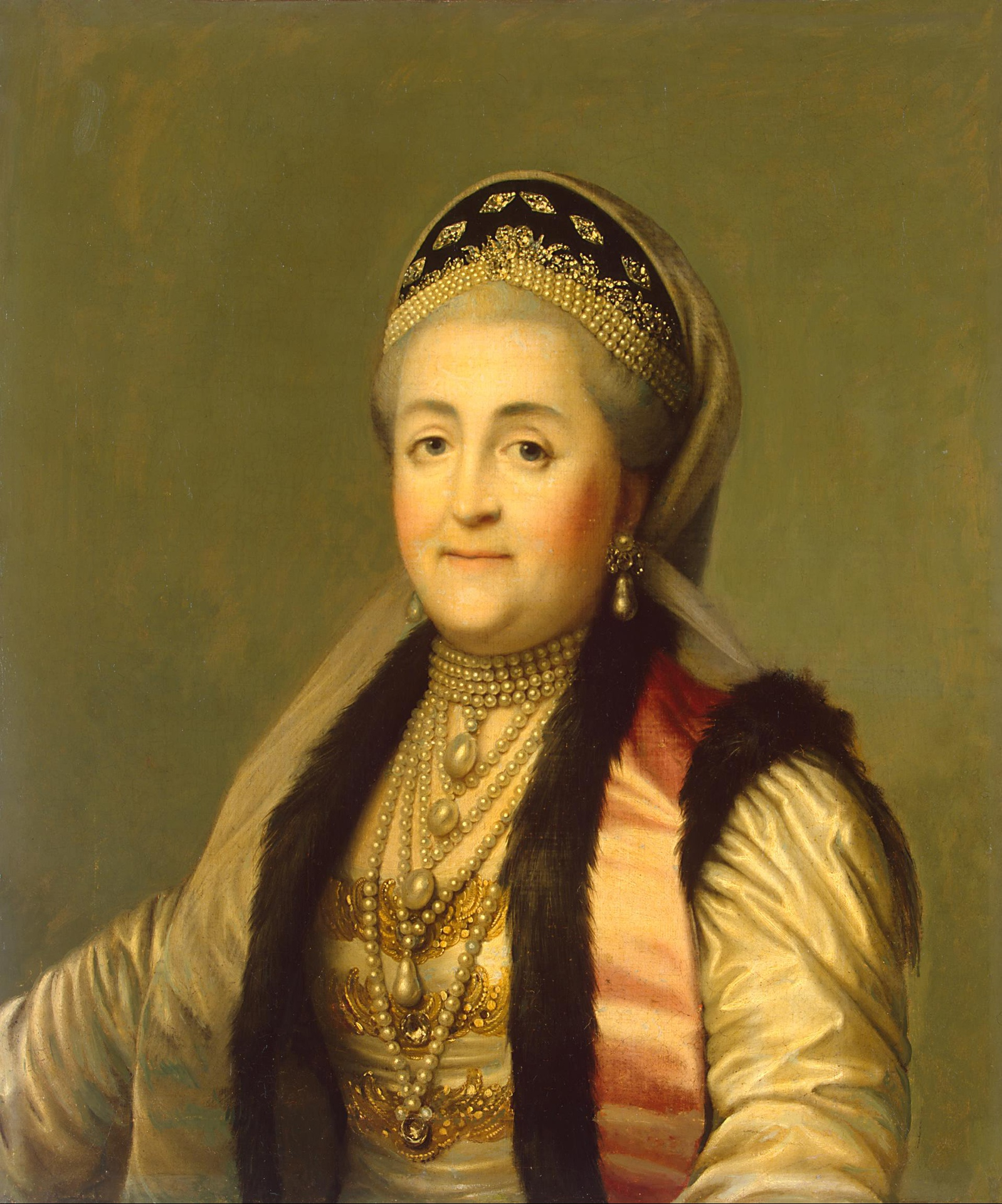 Portrait of Empress Catherine II (1729-1796) in kokoshnik